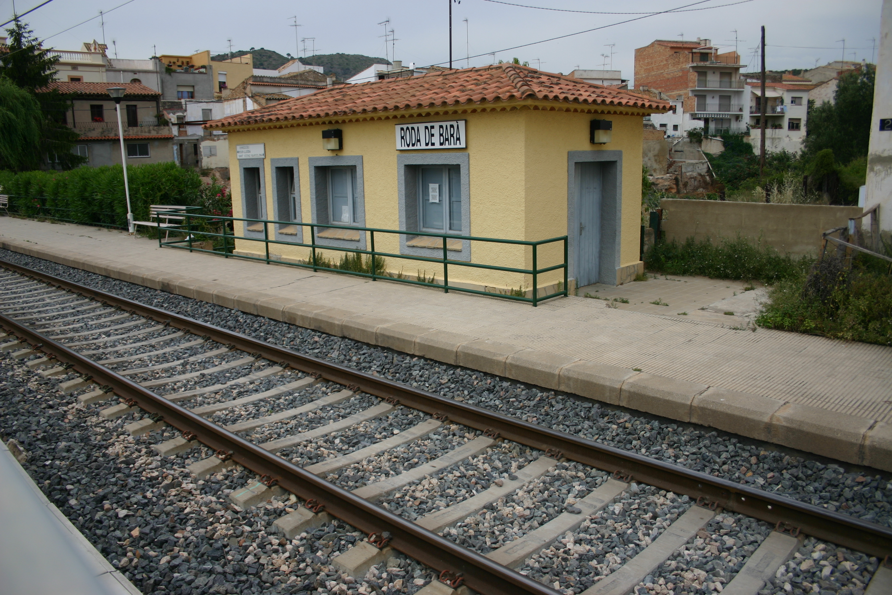 Roda de Mar railway station in Roda de Barà (province of Tarragona, Catalonia, Spain).